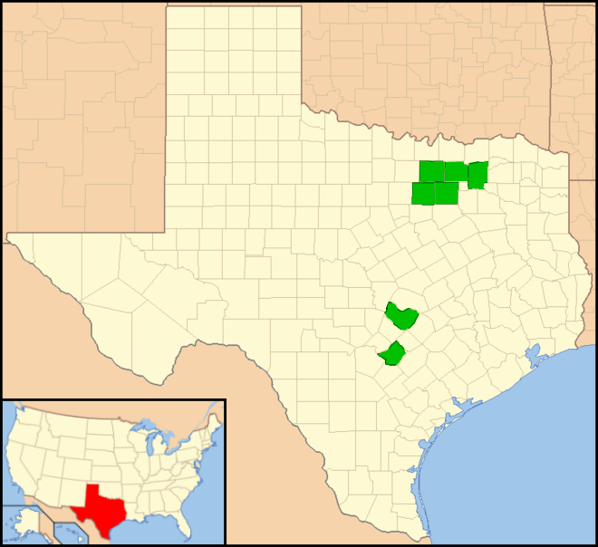 The distribution of the fungus Chorioactis geaster in Texas. Counties include Collin, Dallas, Denton, Guadalupe, Hunt and Tarrent.